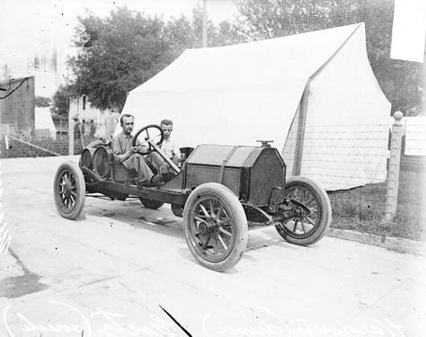 Automobile driver Harroun and automobile mechanic Goetz sitting in a Marmon automobile parked in front of a light-colored tent in Elgin